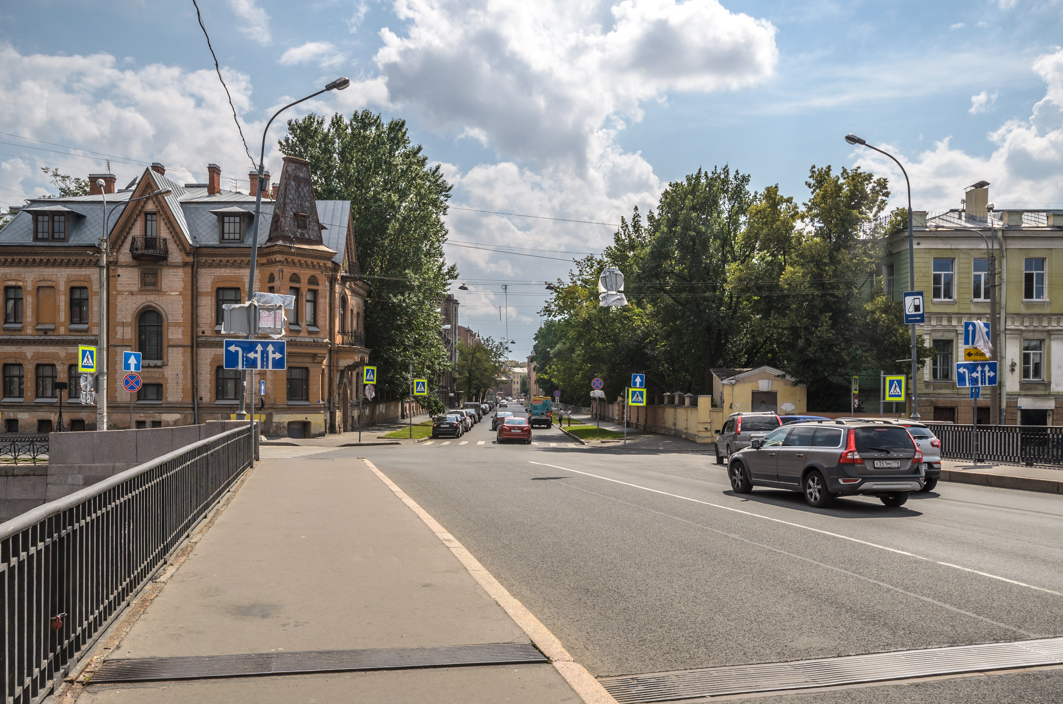 View to Pisareva Street from Khrapovitsky Bridge in Saint Petersburg